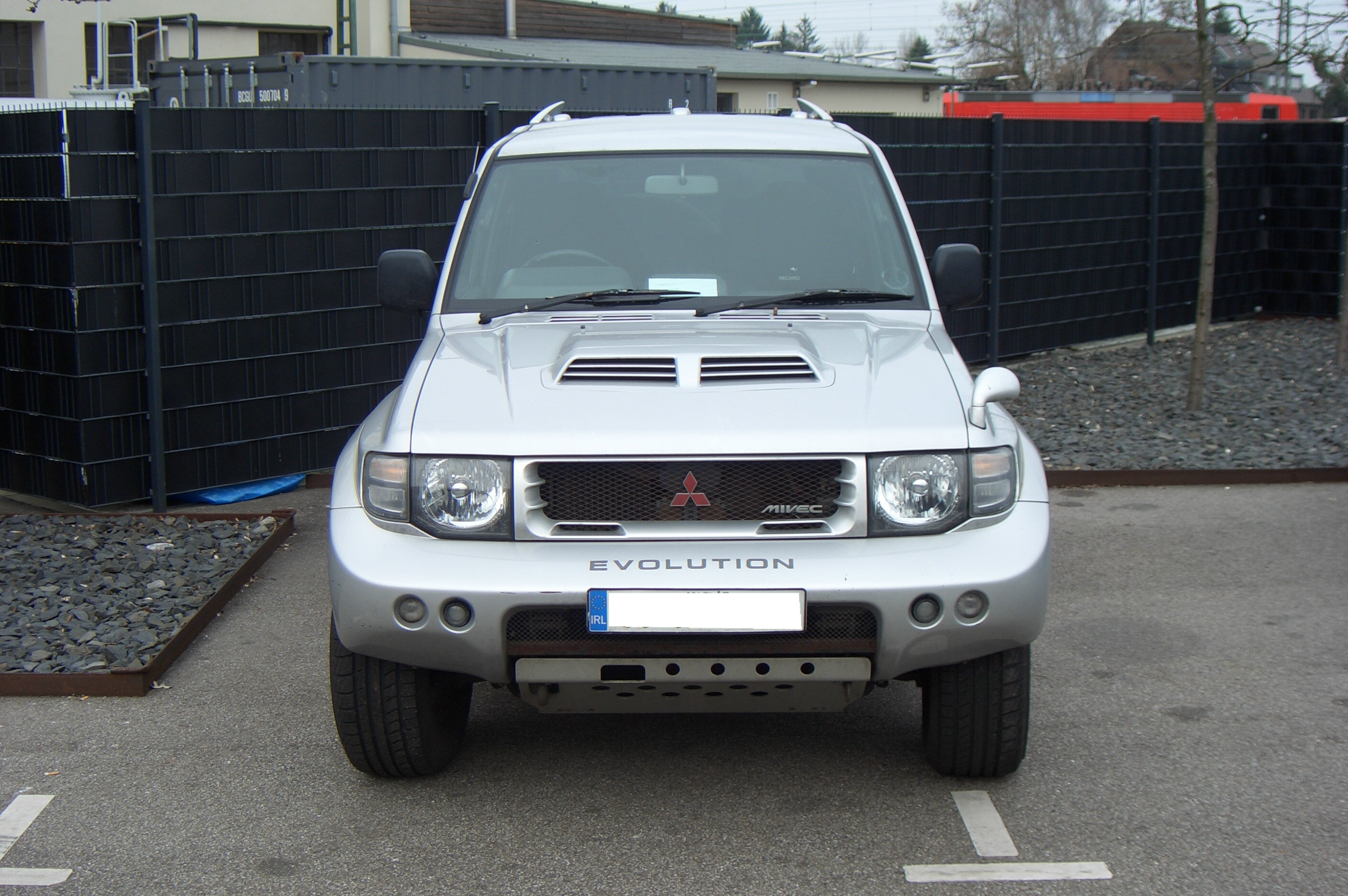 Mitsubishi Pajero Evolution (V55W), street version, 1997-1999